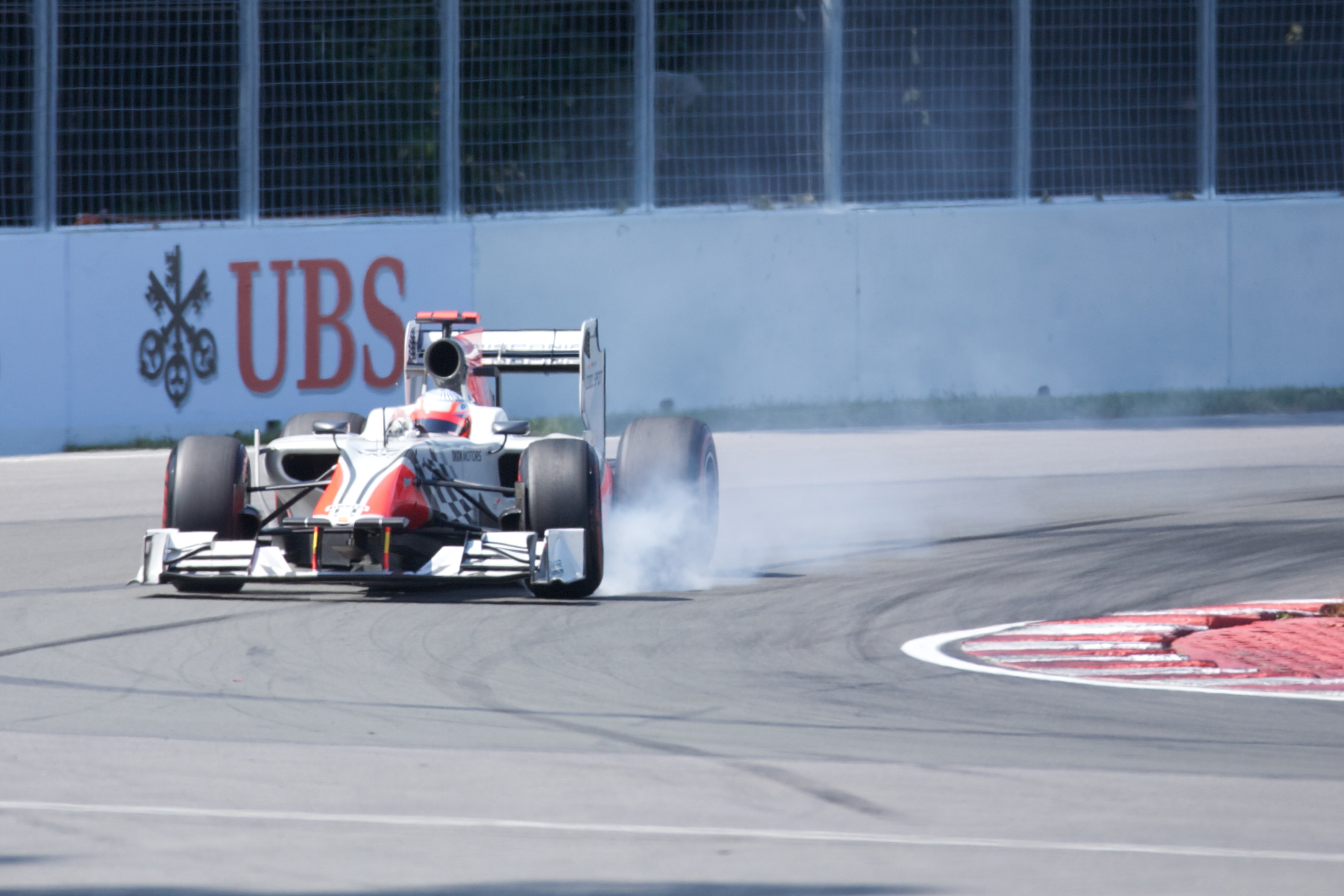 Narain Karthikeyan in a Hispania Racing F111 car at the 2011 Canadian Grand Prix.